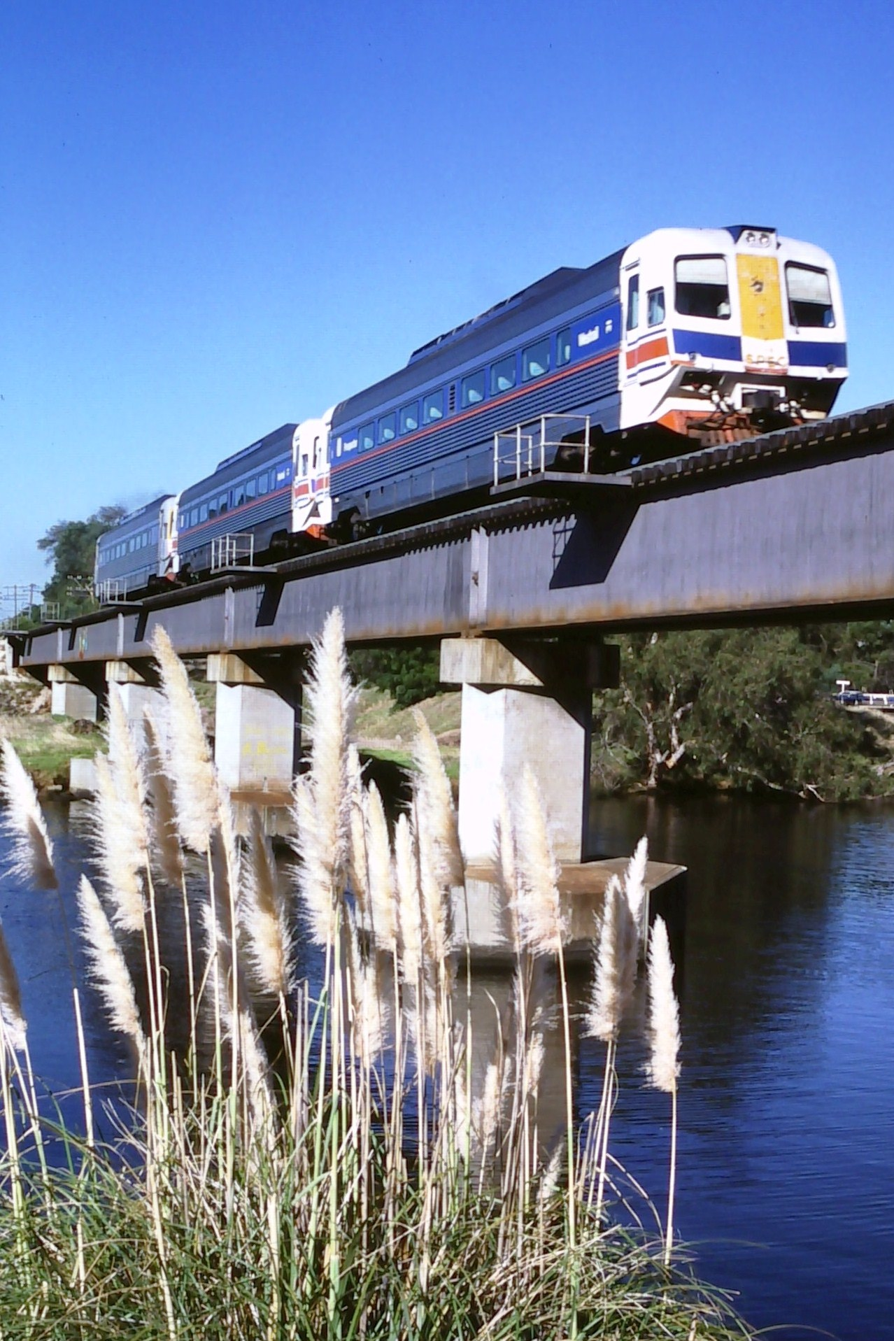 Commonwealth Engineering-built WCA905, sporting an unofficial "THE SPEC" livery on its front end (due to a mismatch between the old WAGR livery on the gangway connection cover and the then new Westrail livery on the rest of the front end), leads a Perth Terminal-bound daylight The Prospector across the bridge over the Swan River at Guildford, Western Australia. Kodachrome slide converted by Kaiser Baas Photo Maker Pro into a digital image.